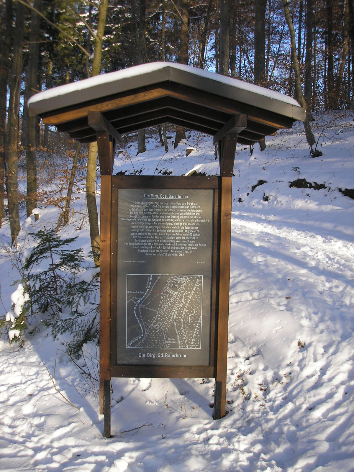 Early Middle Ages hill fort "Birg" near Hohenschäftlarn (Baierbrunn, Landkreis München, Upper Bavaria, Germany). Information board near the hill fort